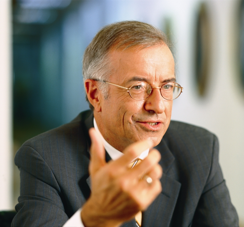 Herbert Sausgruber, former Landeshauptmann of Vorarlberg (Austria).